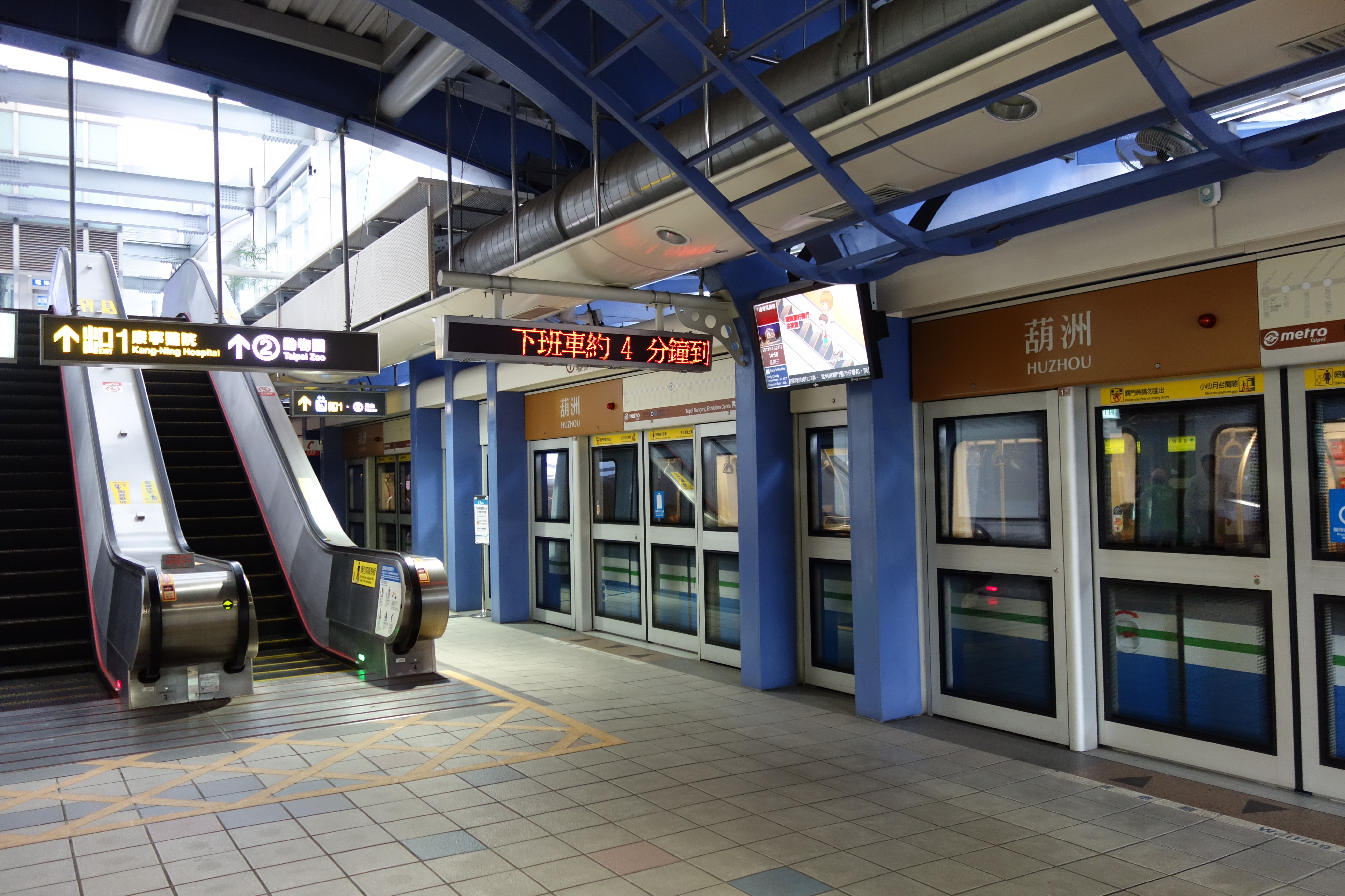 Platform 1, Huzhou Station, Taipei Metro.